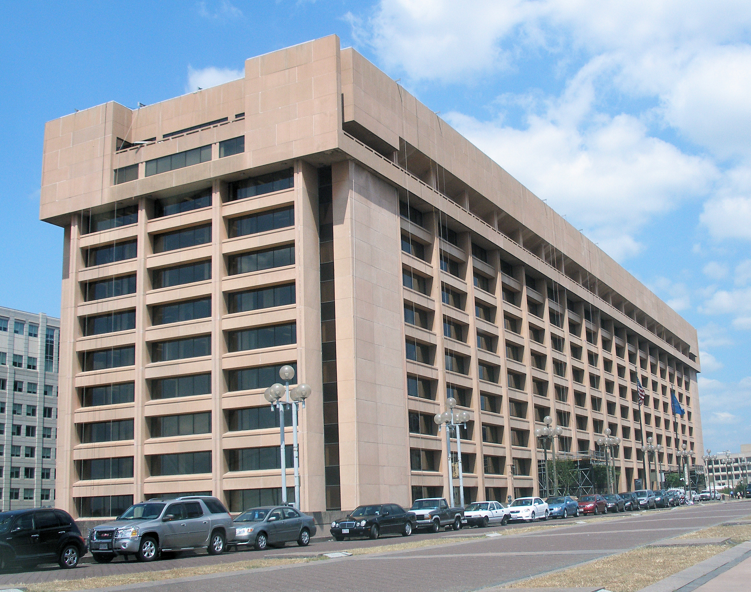 United States Postal Service headquarters at L'Enfant Plaza in Washington, D.C. It was designed by architect Vlastimil Koubek.